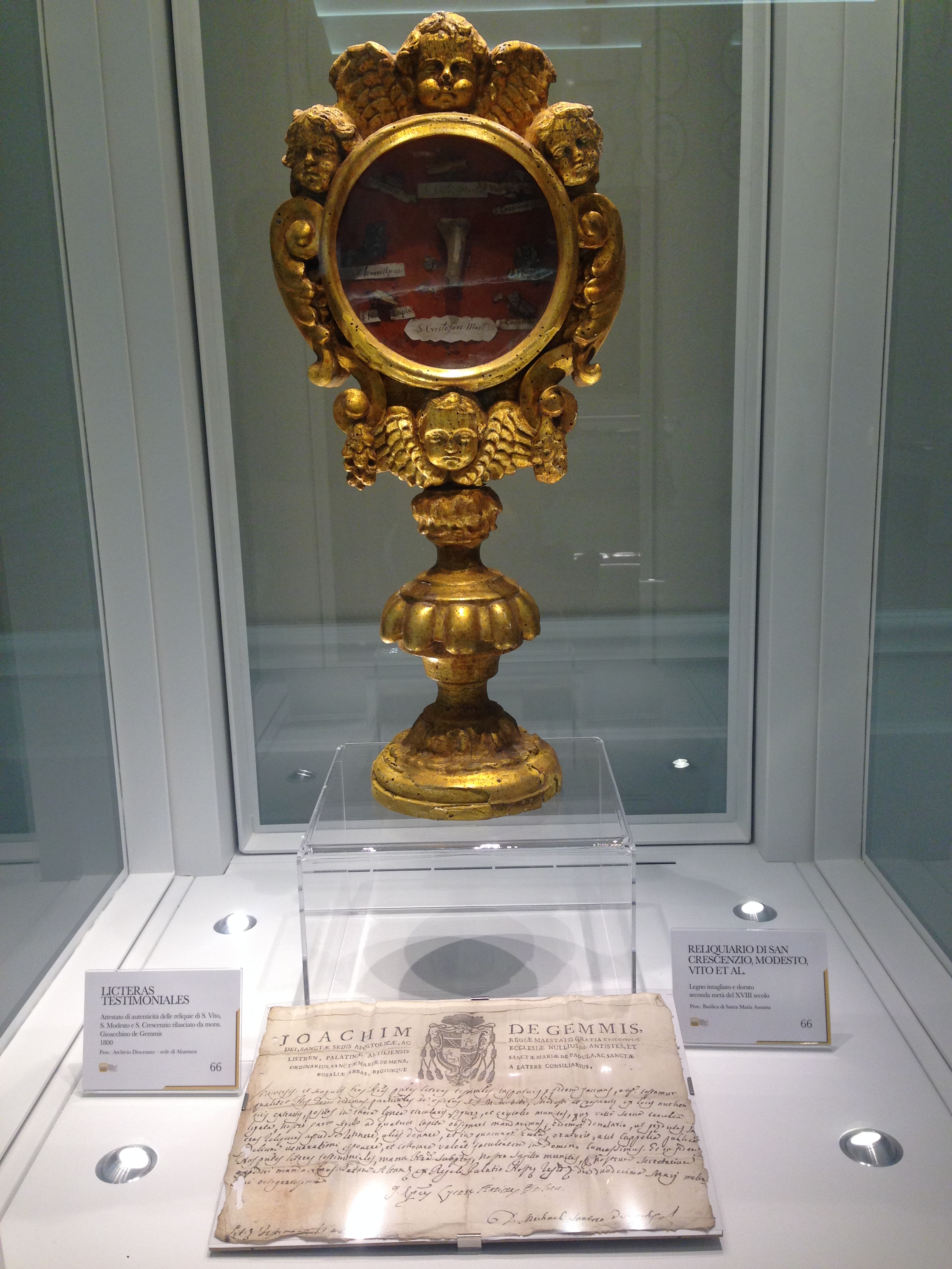 Reliquary authenticated by prelate Gioacchino de Gemmis - It reportedly contains relics of various Catholic saints (Saint Crescentius, Saint Vitus, and others)